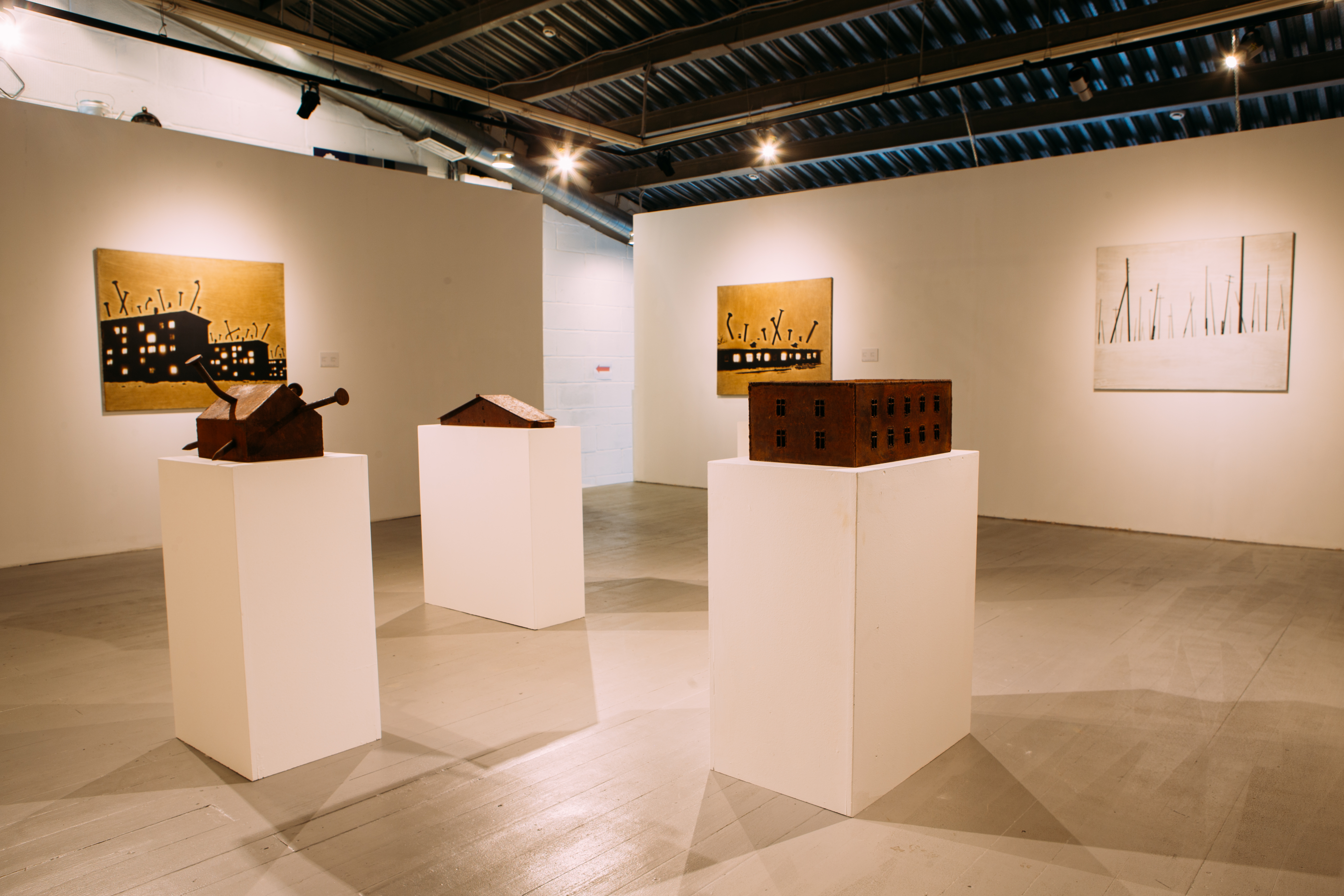 11.12GALLERY Second